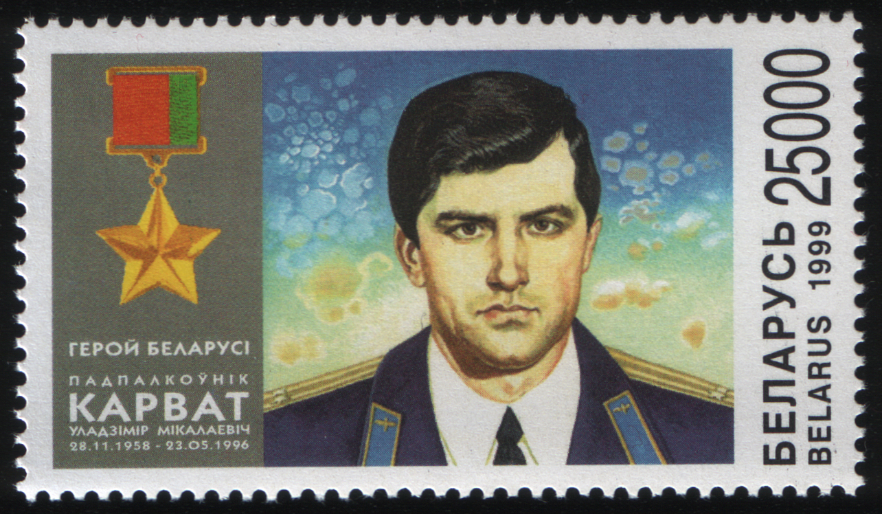 Stamp of Belarus, V. N. Karvat, 1999, 2500 roubles, Scott#314